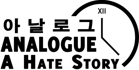 Logo for Analogue: A Hate Story.